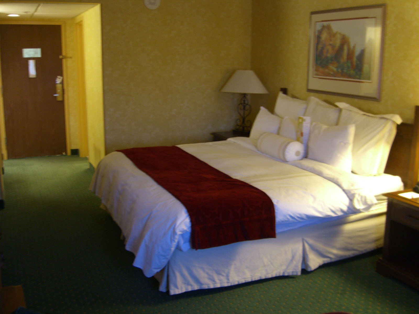 A room in the Albuquerque Marriott Pyramid North in Albuquerque, New Mexico.